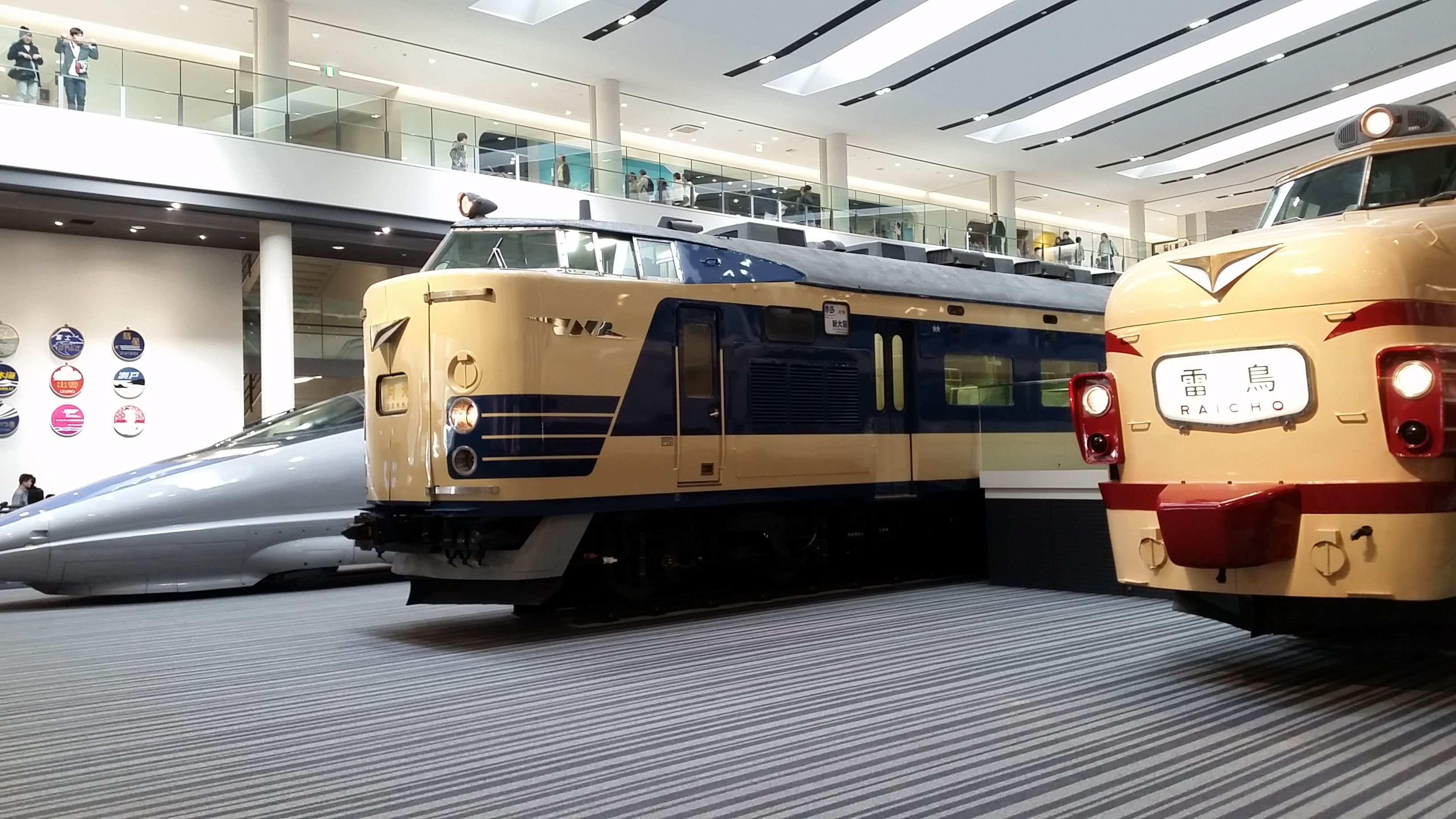 The Main Hall at the Kyoto Railway Museum in Kyoto, Japan